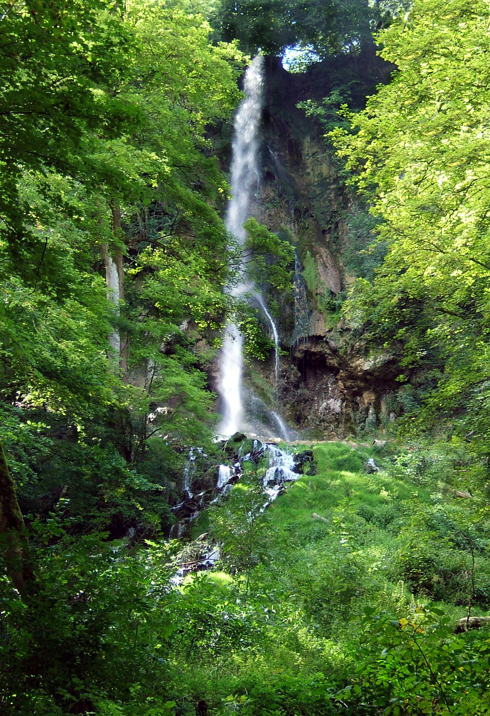 Waterfall near Bad Urach, Germany